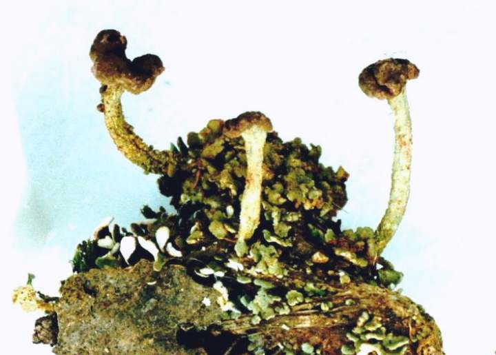 Cladonia peziziformis (With.) J.R. Laundon, 1984 Photograph of a herbarium specimen. This specimen of Cladonia peziziformis was growing on soil in a grassy field on the western side of Cherrywood Lane across from the Beltway Plaza Mall, Greenbelt, Prince George's County, Maryland, USA (39o00.049' N, 76o54.678' W, Elevation 126 feet). Collected and identified by E.C. Uebel (No. U-499, 7 Mar 2005)